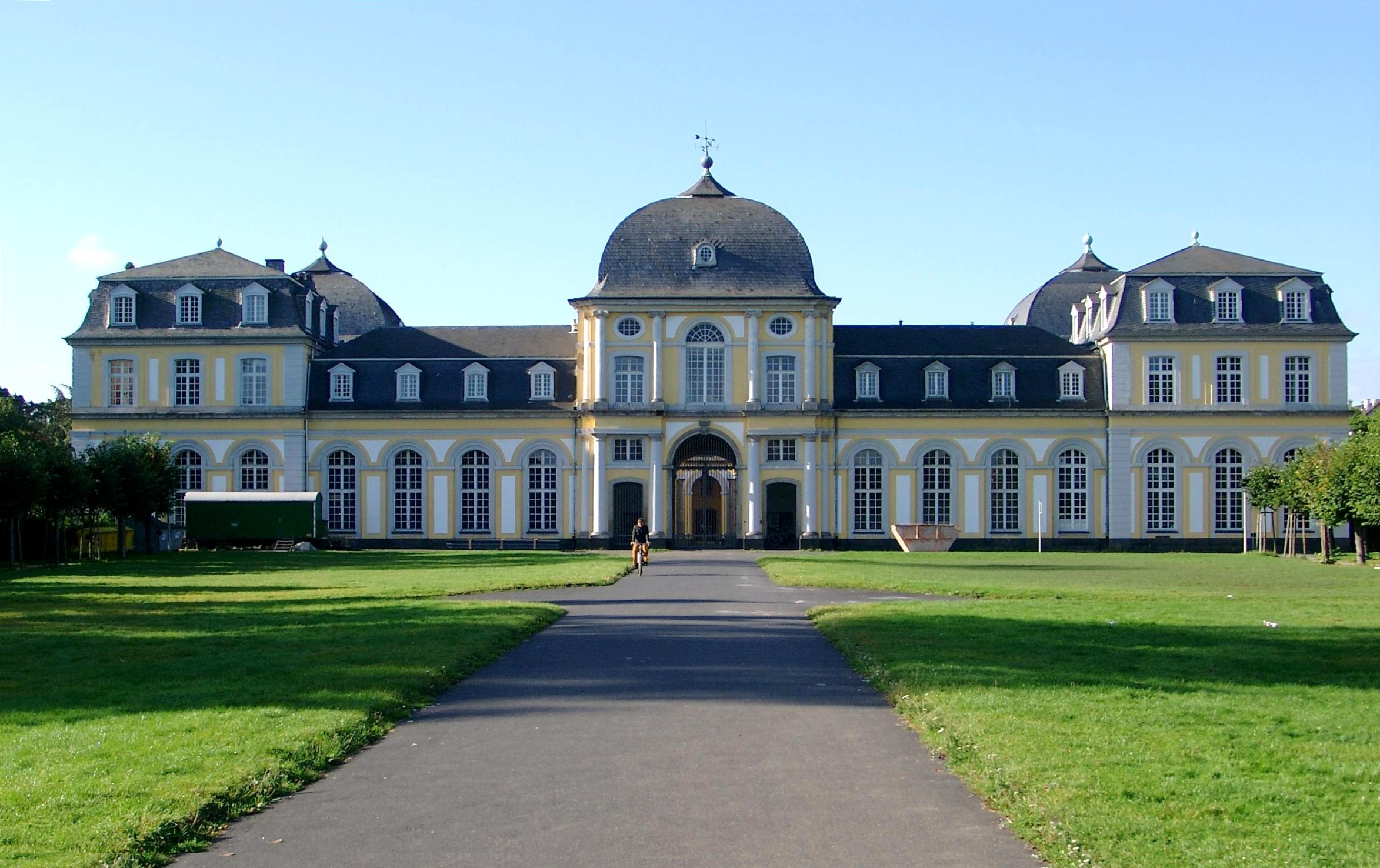 Castle of Poppelsdorf in Bonn